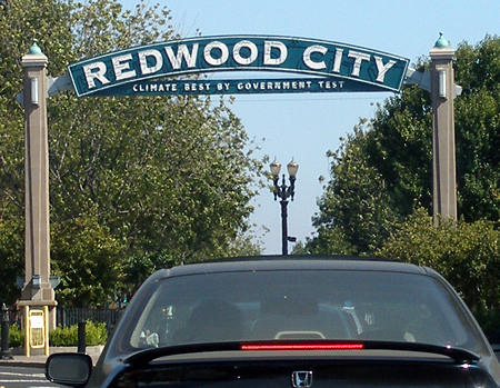 The "Redwood City" arch over Broadway at the western end of downtown Redwood City.